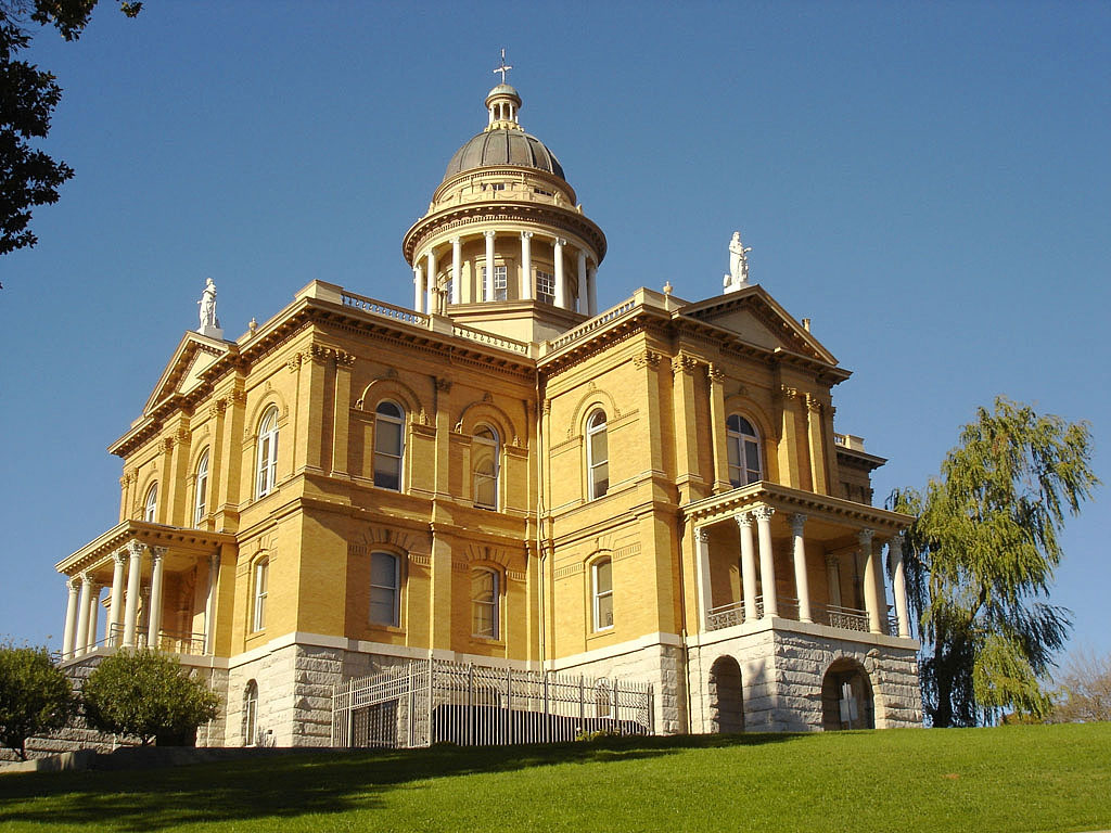 Placer County Courthouse — in the Old Auburn Historic District, Auburn, Placer County, California.